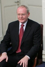 Northern Ireland Deputy First Minister Martin McGuinness during a meeting at Stormont Castle in Belfast, Northern Ireland